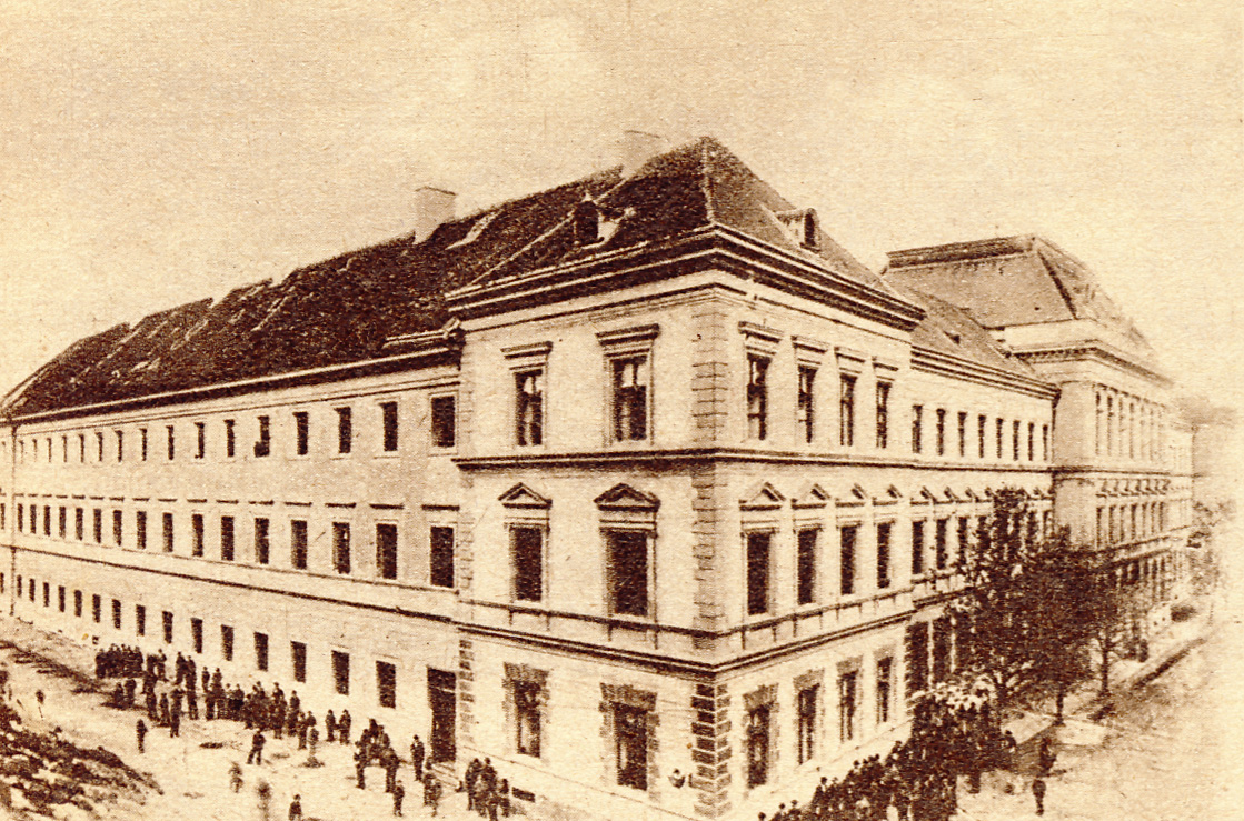 Bethlen college of Aiud in 1905.